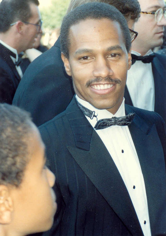 Eric Laneuville at the 41st Annual Emmy Awards